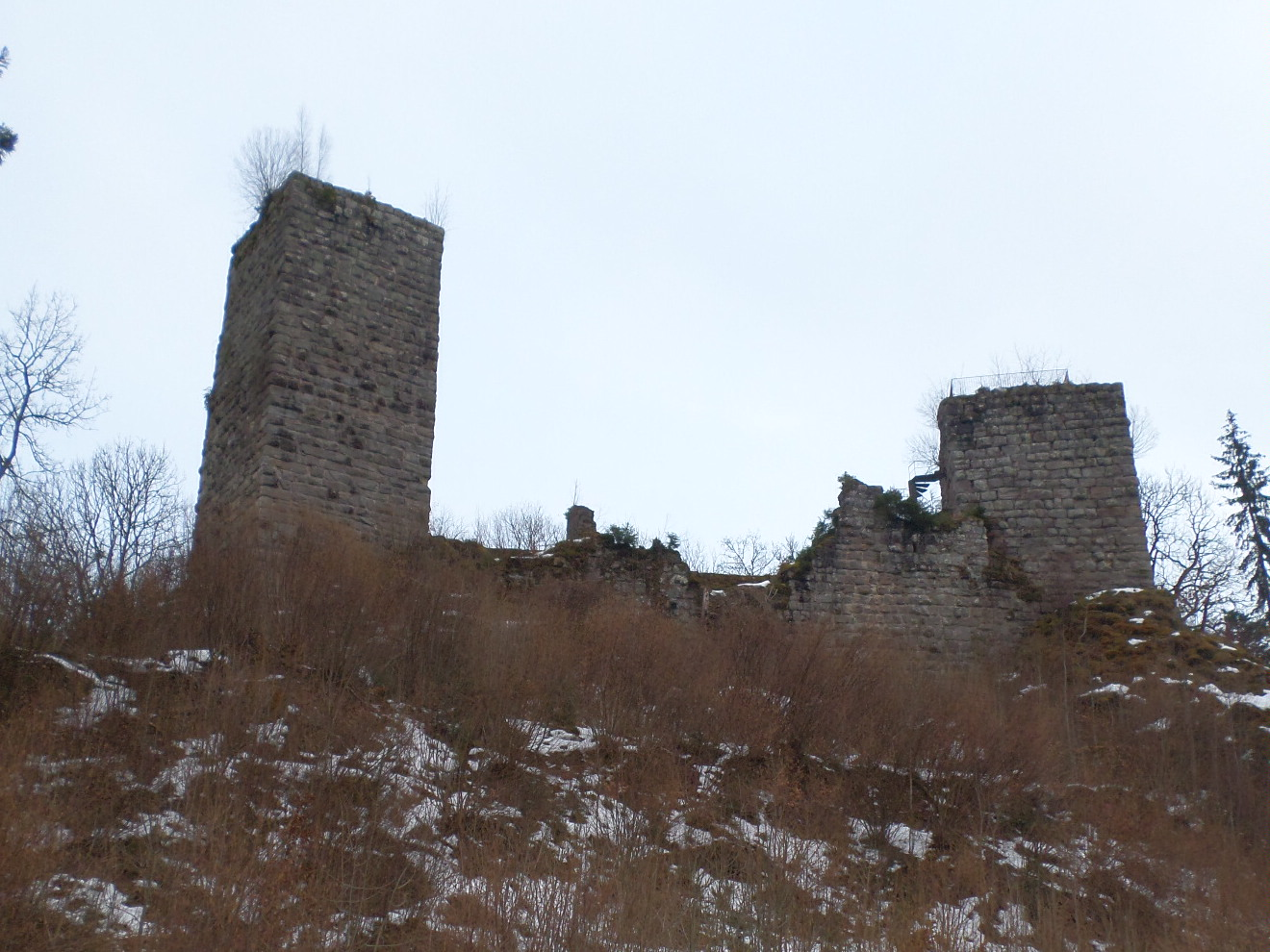 Roggenbacher Schlösser, Bonndorf, Waldshut, Baden-Württemberg, Germany